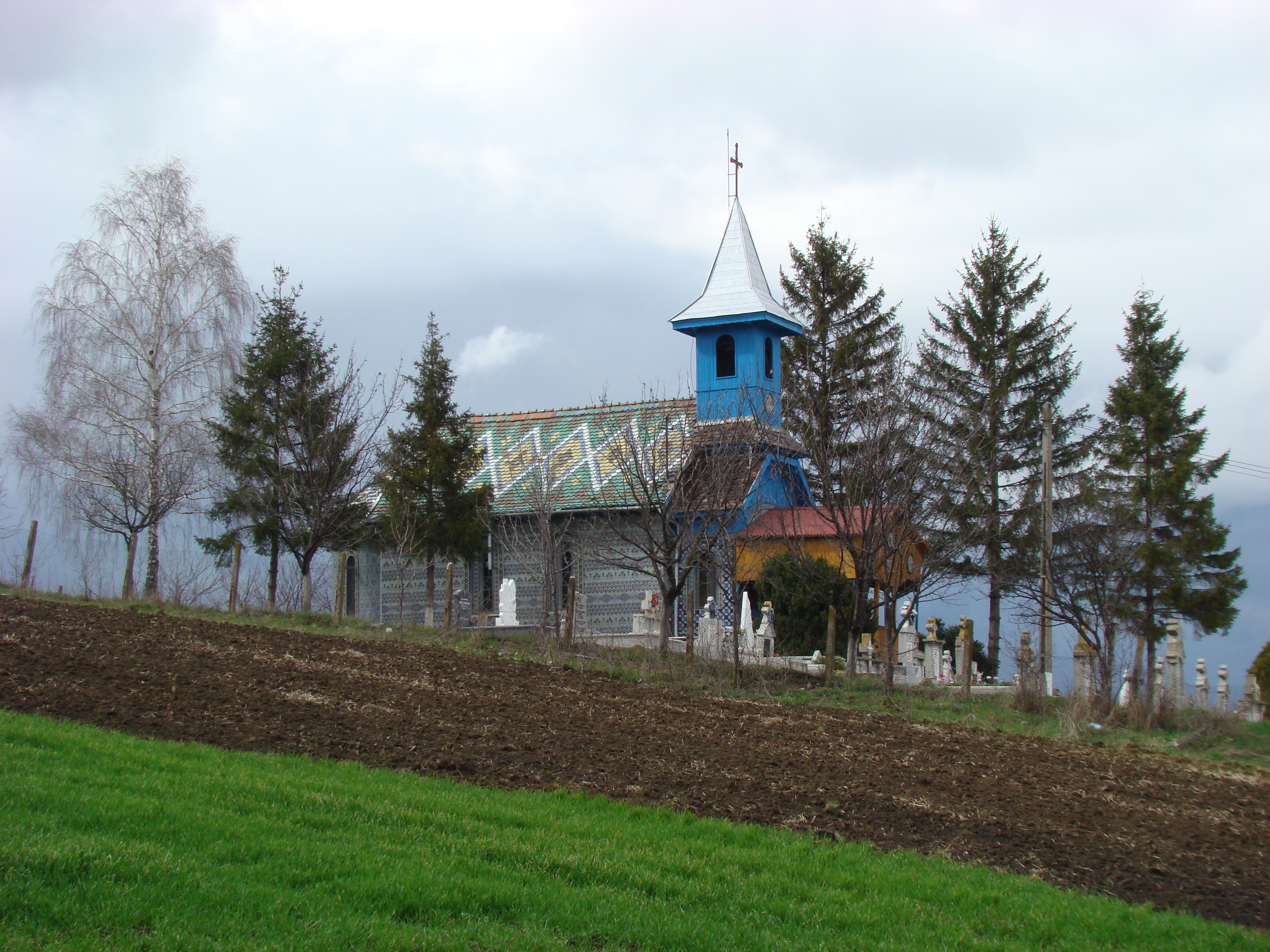 Botorca, Mureș county, Romania